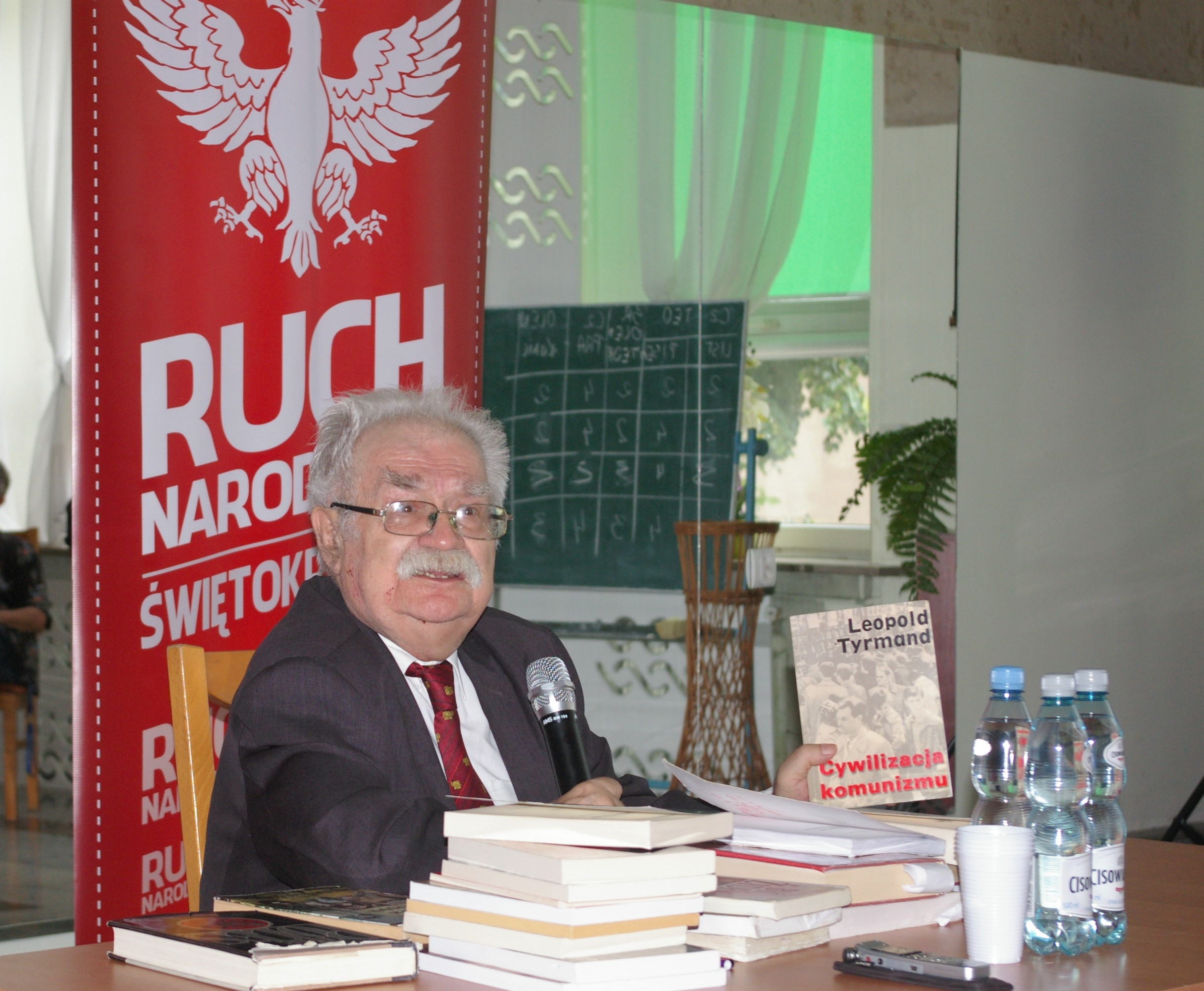 Meeting with prof. Jerzy Robert Nowak in Kielce 6 July 2019. The lecture concerned events in Kielce on July 4, 1946, called the Kielce Pogrom. It took place in connection with the 73rd anniversary of this event.